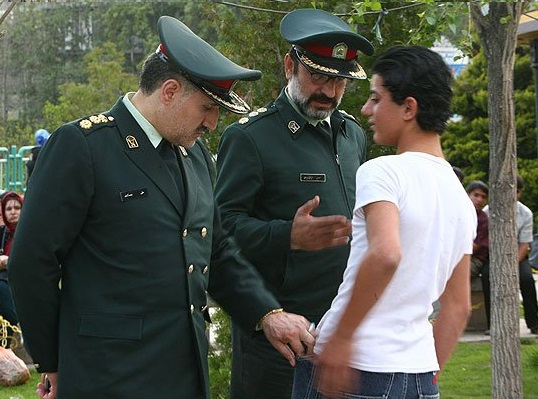 The beginning of the First vice squad of guidance patrol in Tehran - 22 April 2006. for more, Fars archive (in Persian)